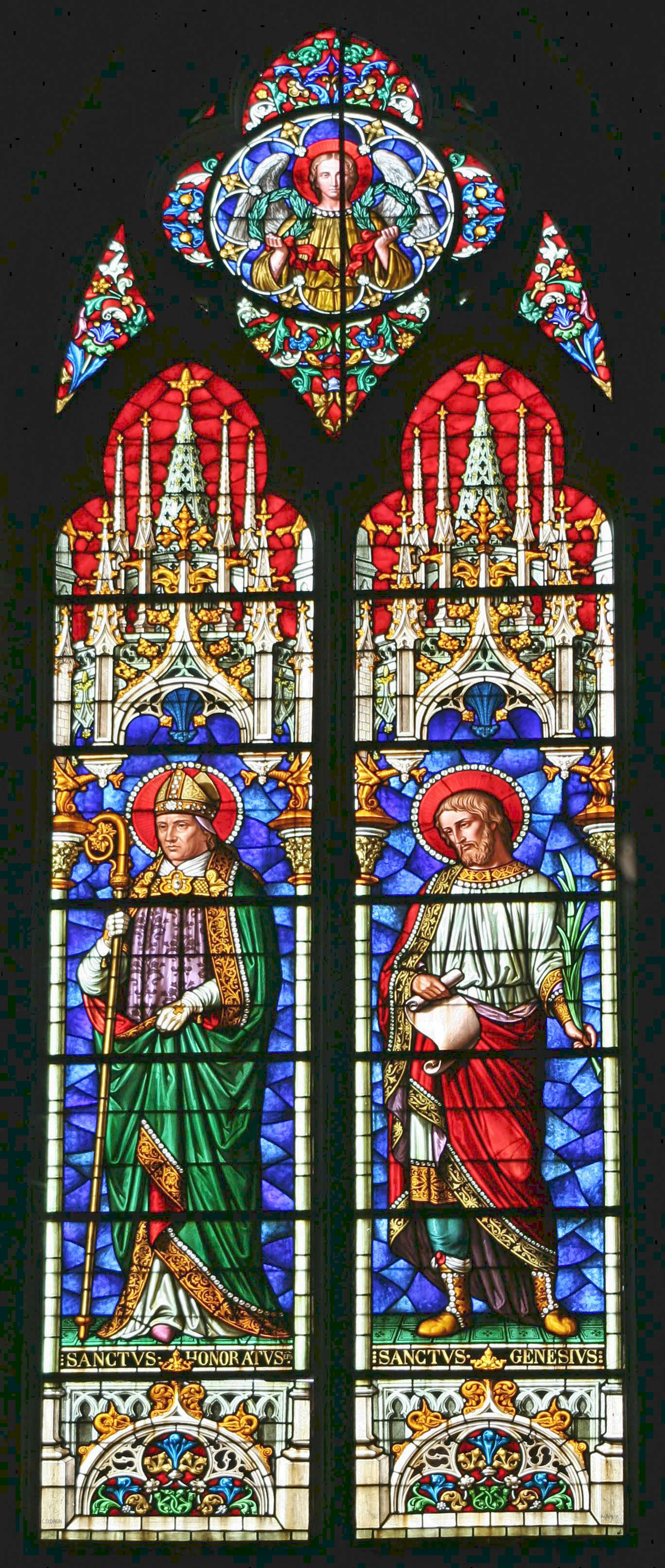 Genesius of Arles (right) portrayed in a stained glass window. On the left is Saint Honoratus. Church of St. Trophime, Arles.